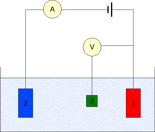 Three-electrode setup for measurement of potential. 1 - working electrode, 2 - auxiliary electrode, 3 - reference electrode, A - ammeter, V - voltmeter.